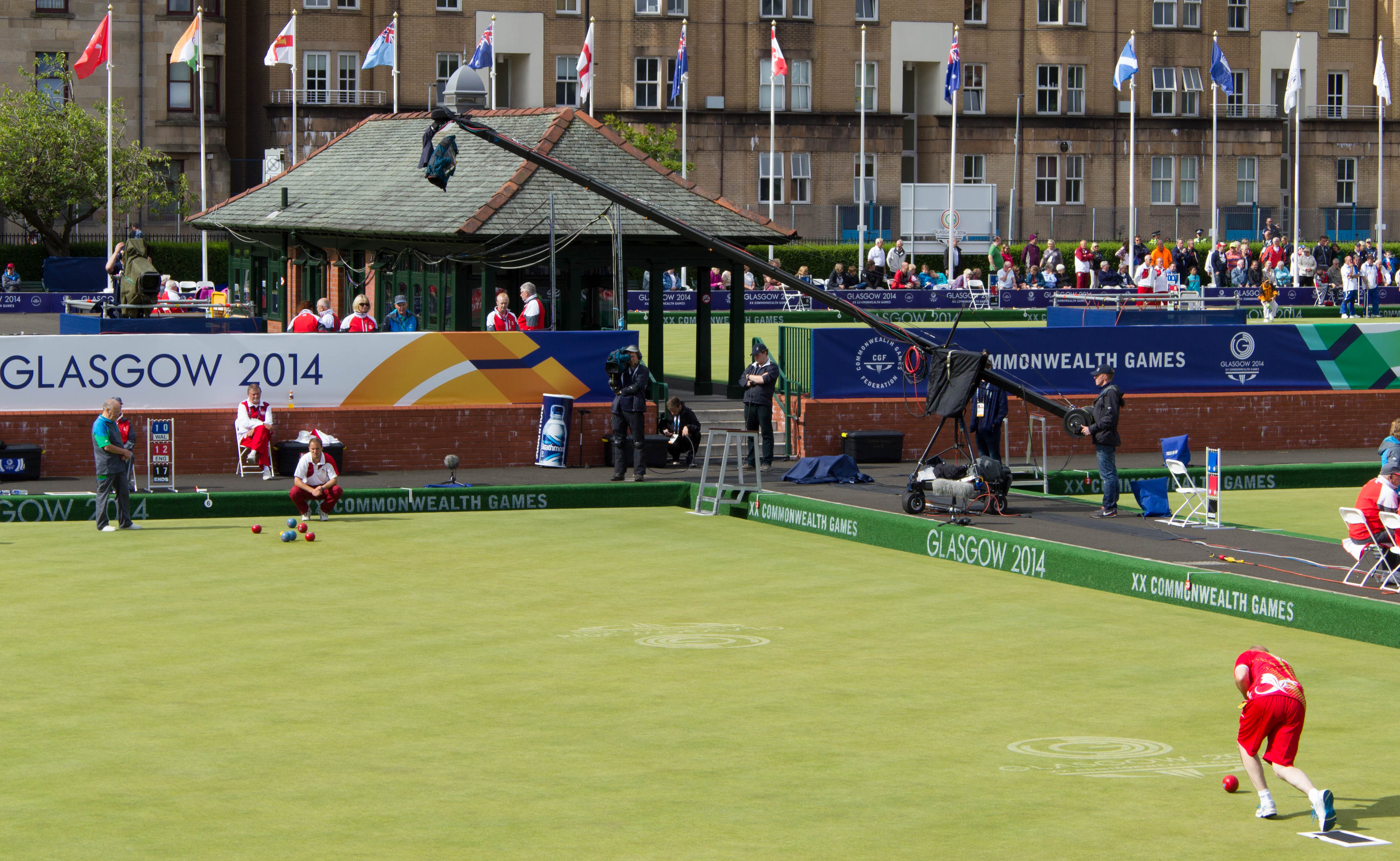 Lawn bowls at the 2014 Commonwealth Games